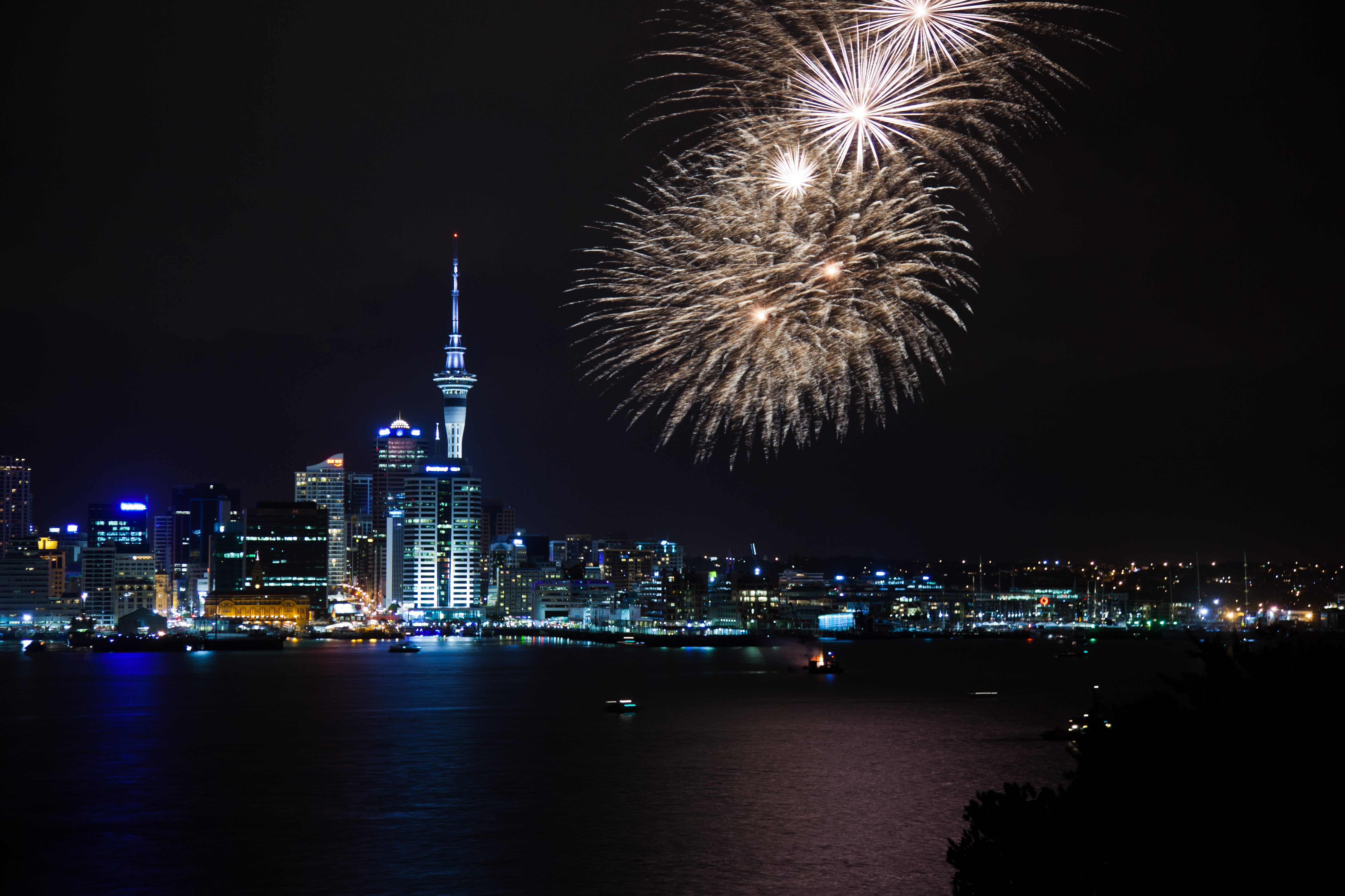 Auckland Anniversary Day firework in 2011